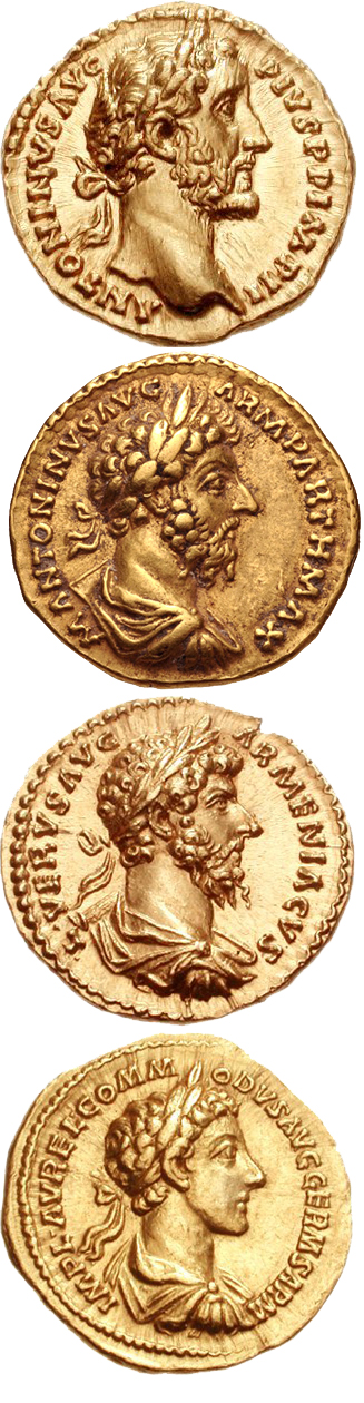 Antoninus Pius. AD 138-161. AV Aureus (7.39 g, 5h). Rome mint. Struck AD 156-157. ANTONINVS AVG PIVS P P IMP II, laureate head right / TR POT X-X COS IIII, Victory advancing left, holding wreath in right hand, cradling palm frond in left arm. RIC III 266a; Strack 316; Calicó 1675; BMCRE 887-8.